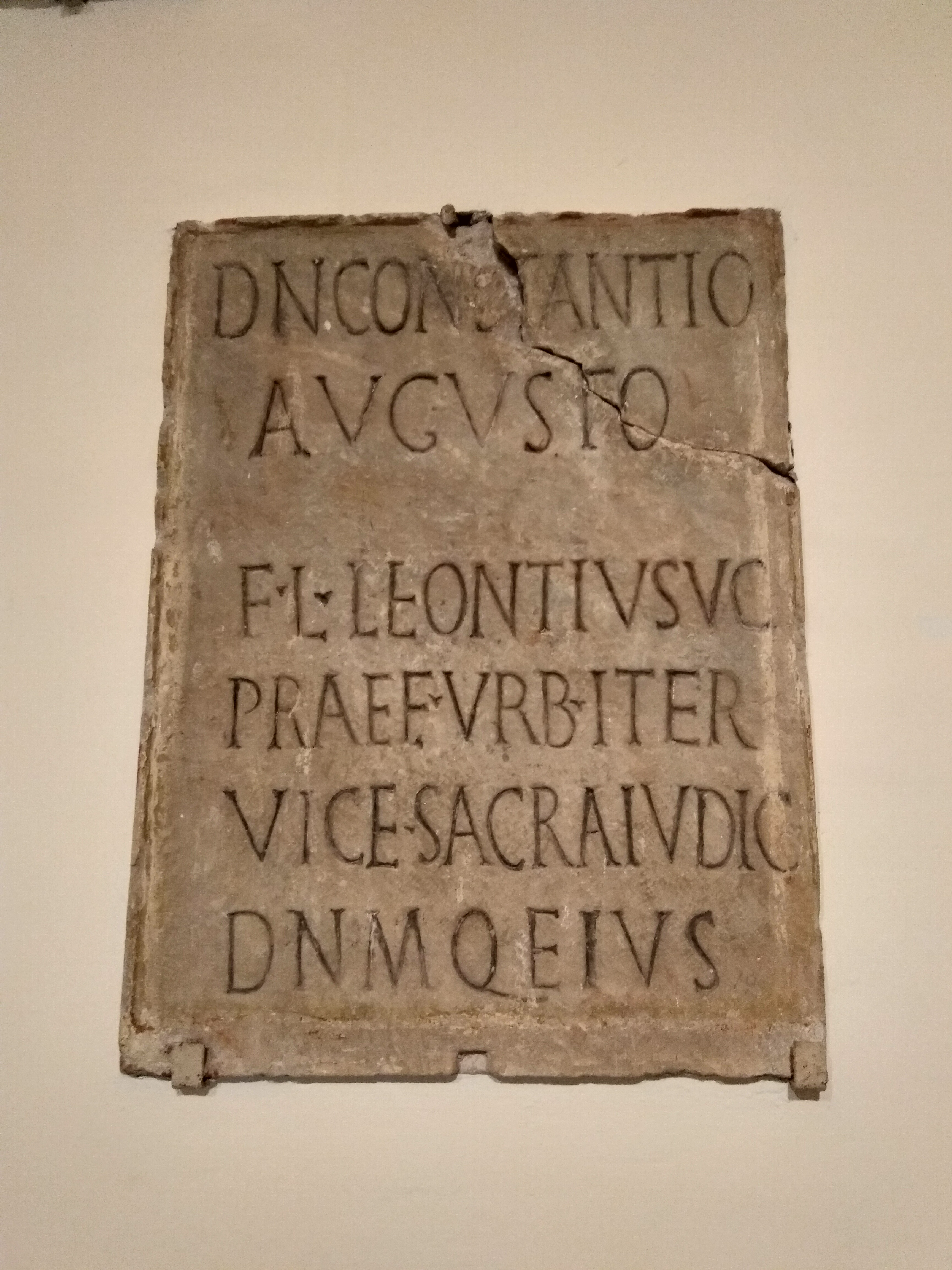 Base of statue in honour of emperor Constantius II